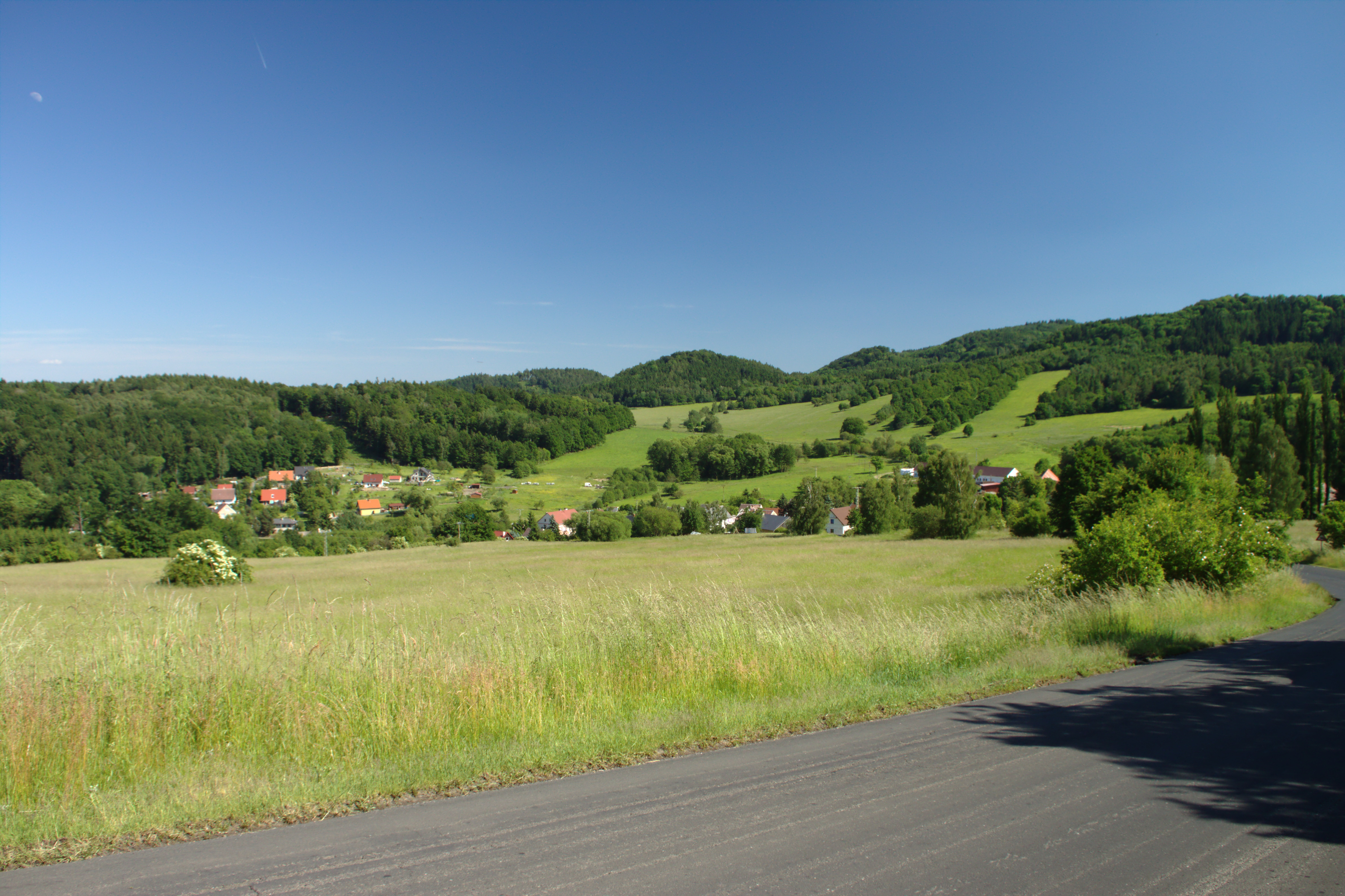 A view towards the village of Tašov from the north, Ústí Region, CZ